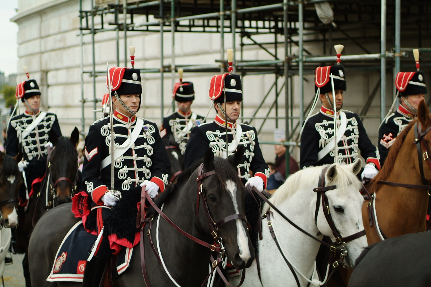 Lord Mayor's Show, London 2006